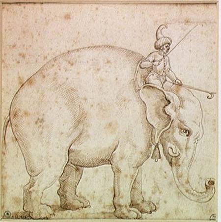 Elephant Hanno and his Mahout (drawing)